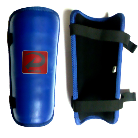 Shinpads